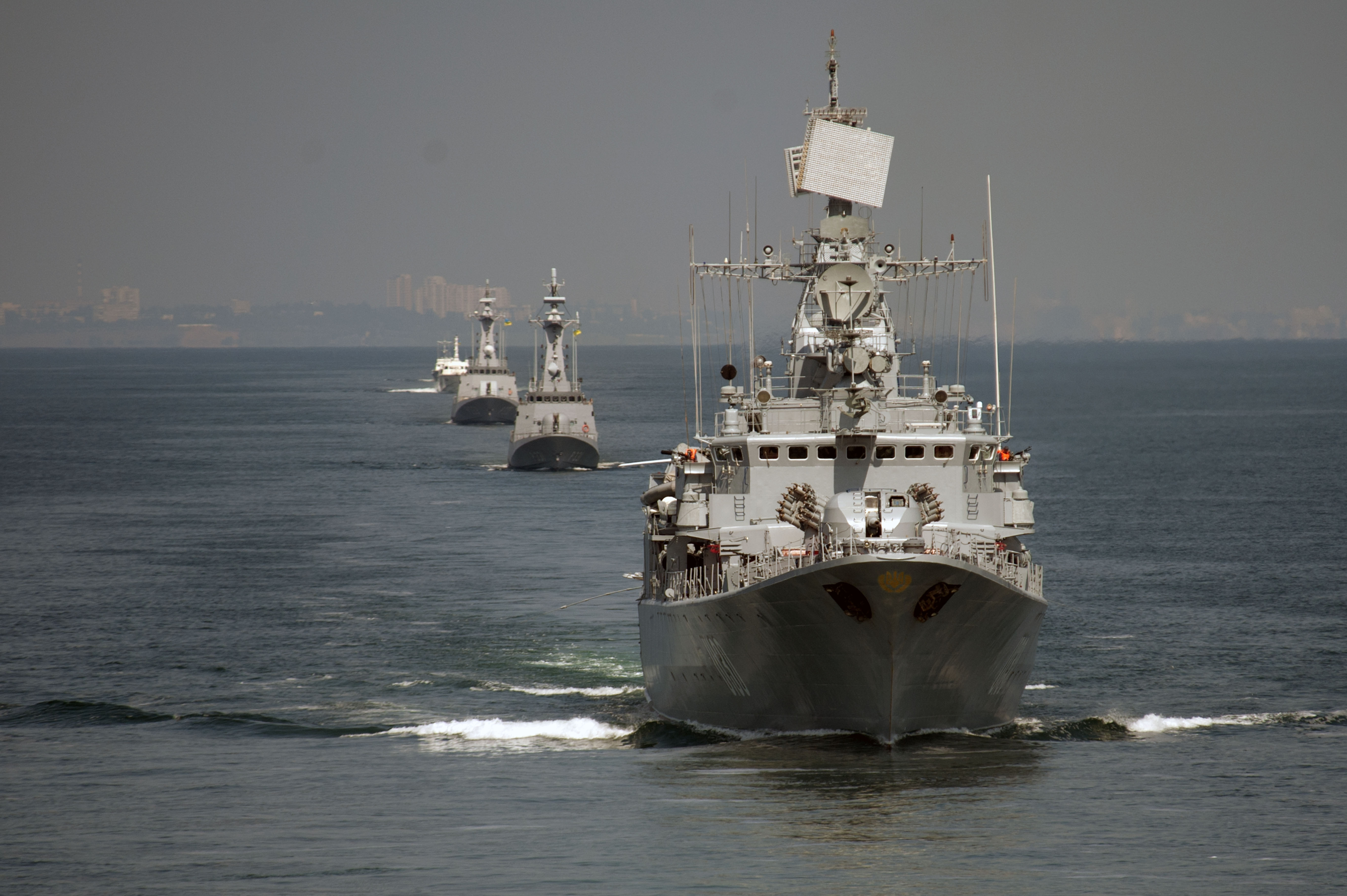 BLACK SEA - Ukrainian navy frigate Hetman Sahaydachniy (U 130), right, Ukrainian navy amphibious assault ship Kostiantyn Olshansky (U 402), and Turkish navy patrol ships TCG Kalkan (P 331) and TCG Tufan (P 333) steam in formation during a mine counter measure exercise during Exercise Sea Breeze 2012 (SB12). SB12, co-hosted by the Ukrainian and U.S. navies, aims to improve maritime safety, security and stability engagements in the Black Sea by enhancing the capabilities of Partnership for Peace and Black Sea regional maritime security forces.